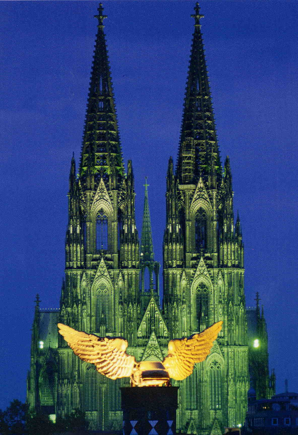 Winged Car Cologne